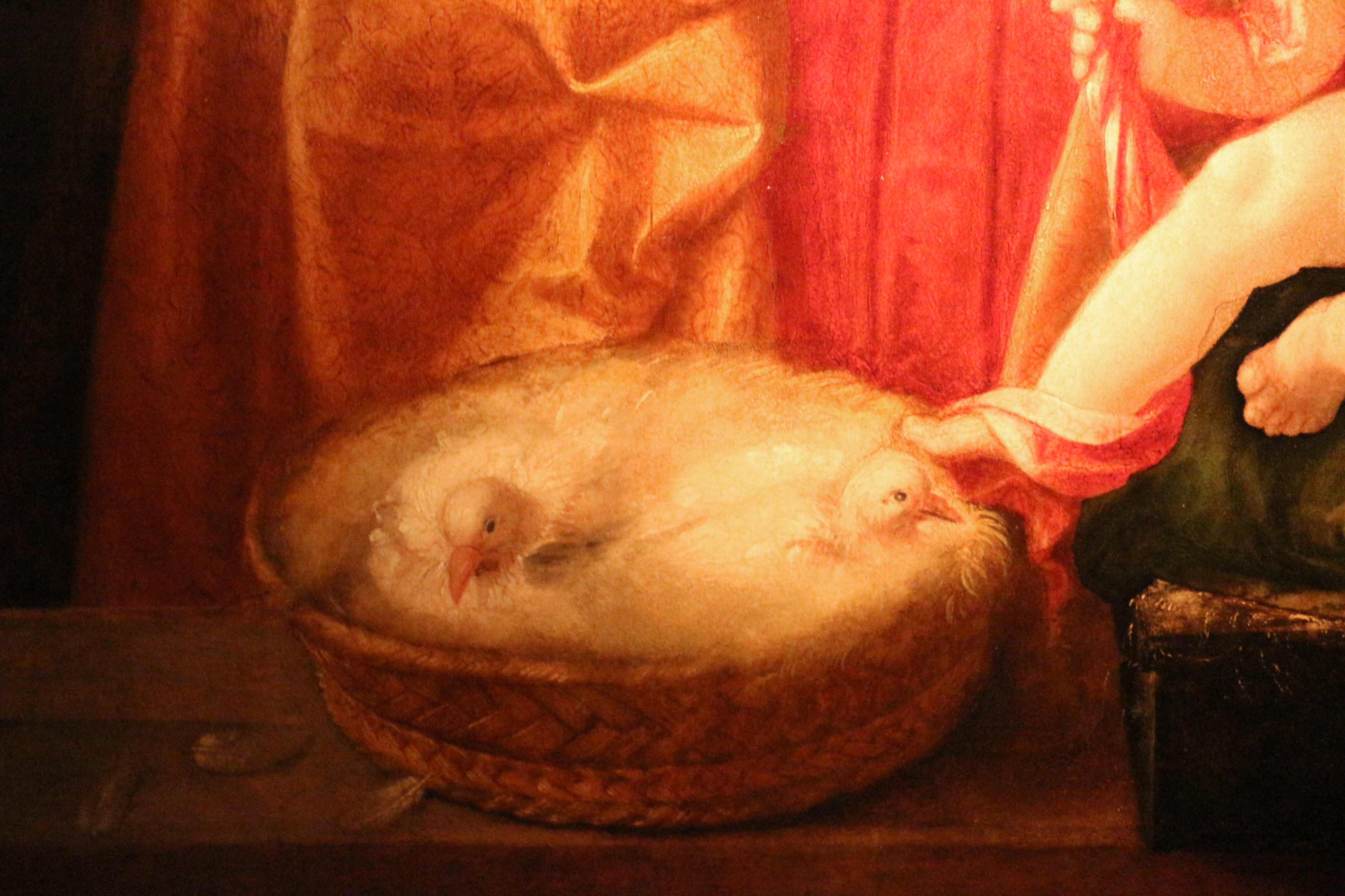 Museo Adriano Bernareggi